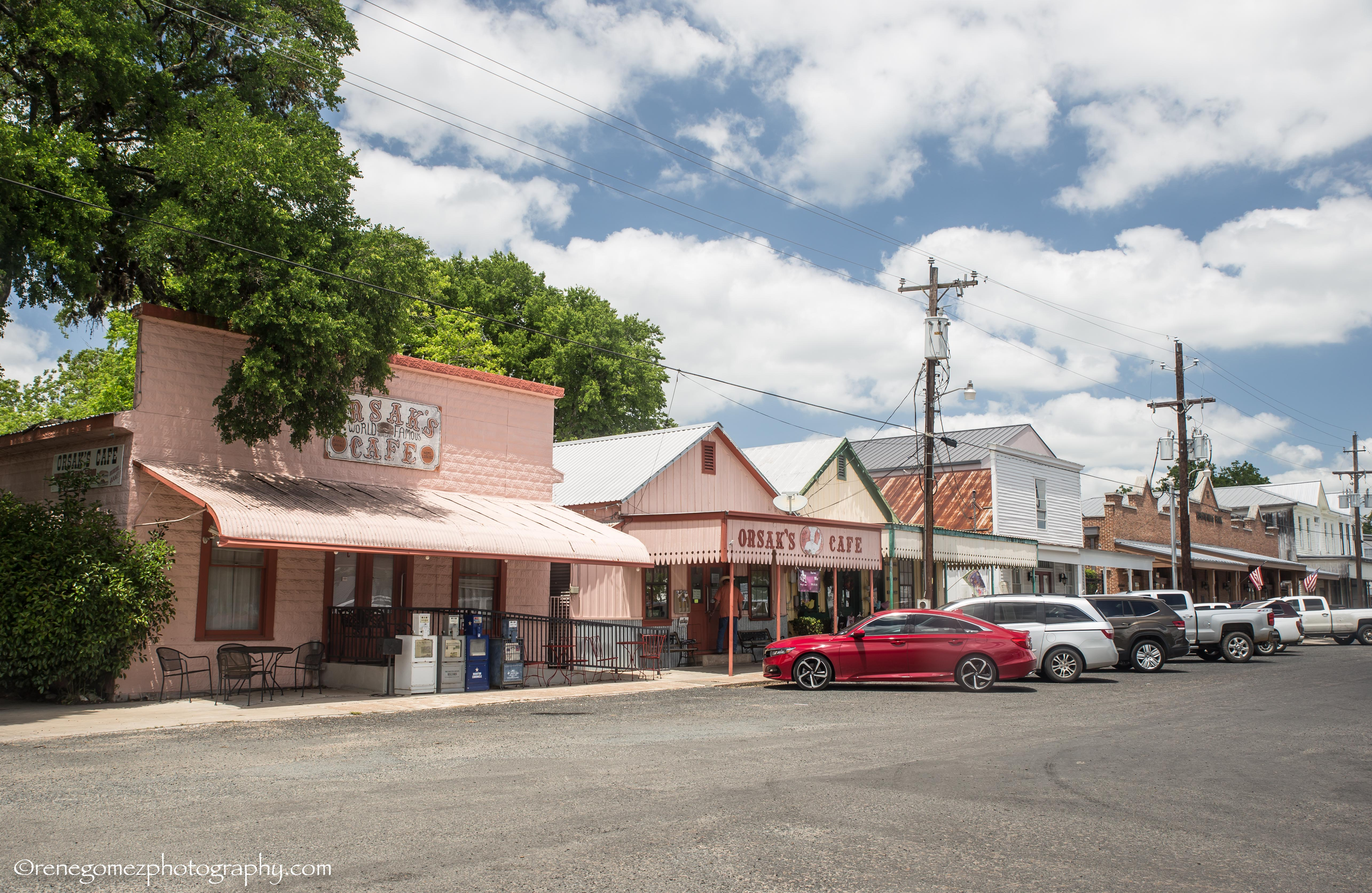 Fayetteville Historic District in Fayetteville, Texas